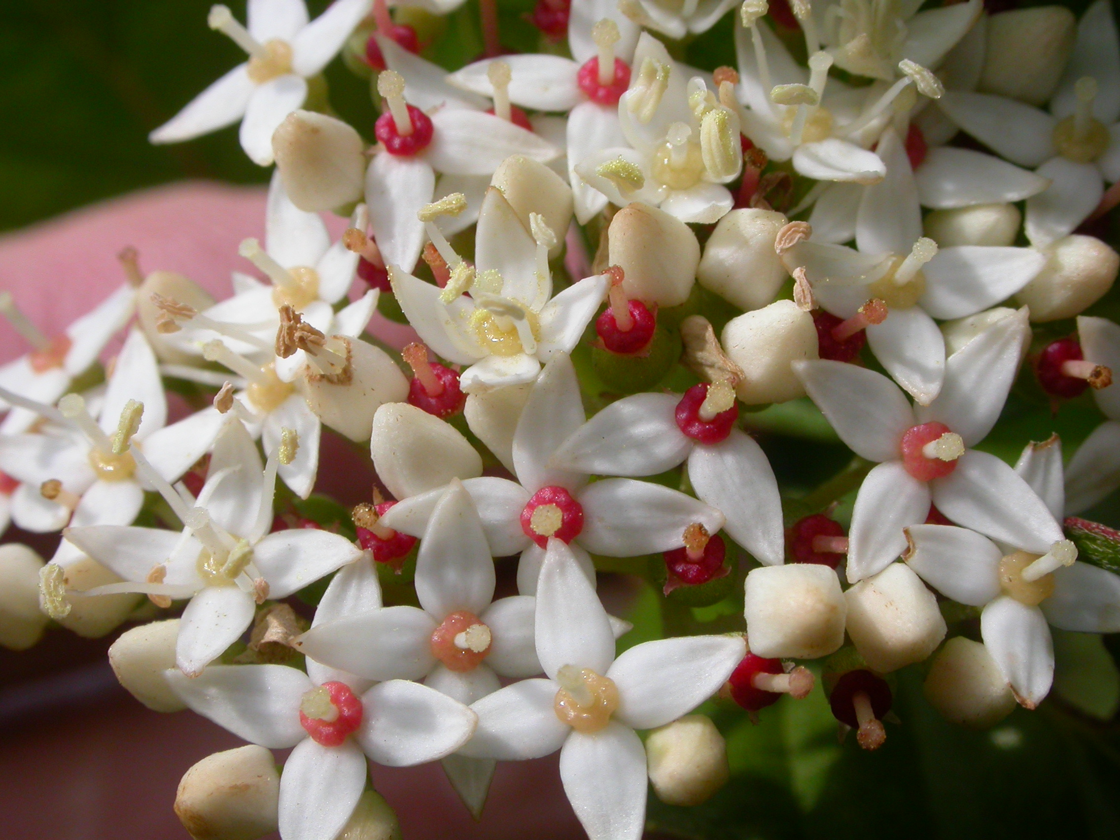 Flowering occurs mostly during the mid summer and sporadically later.